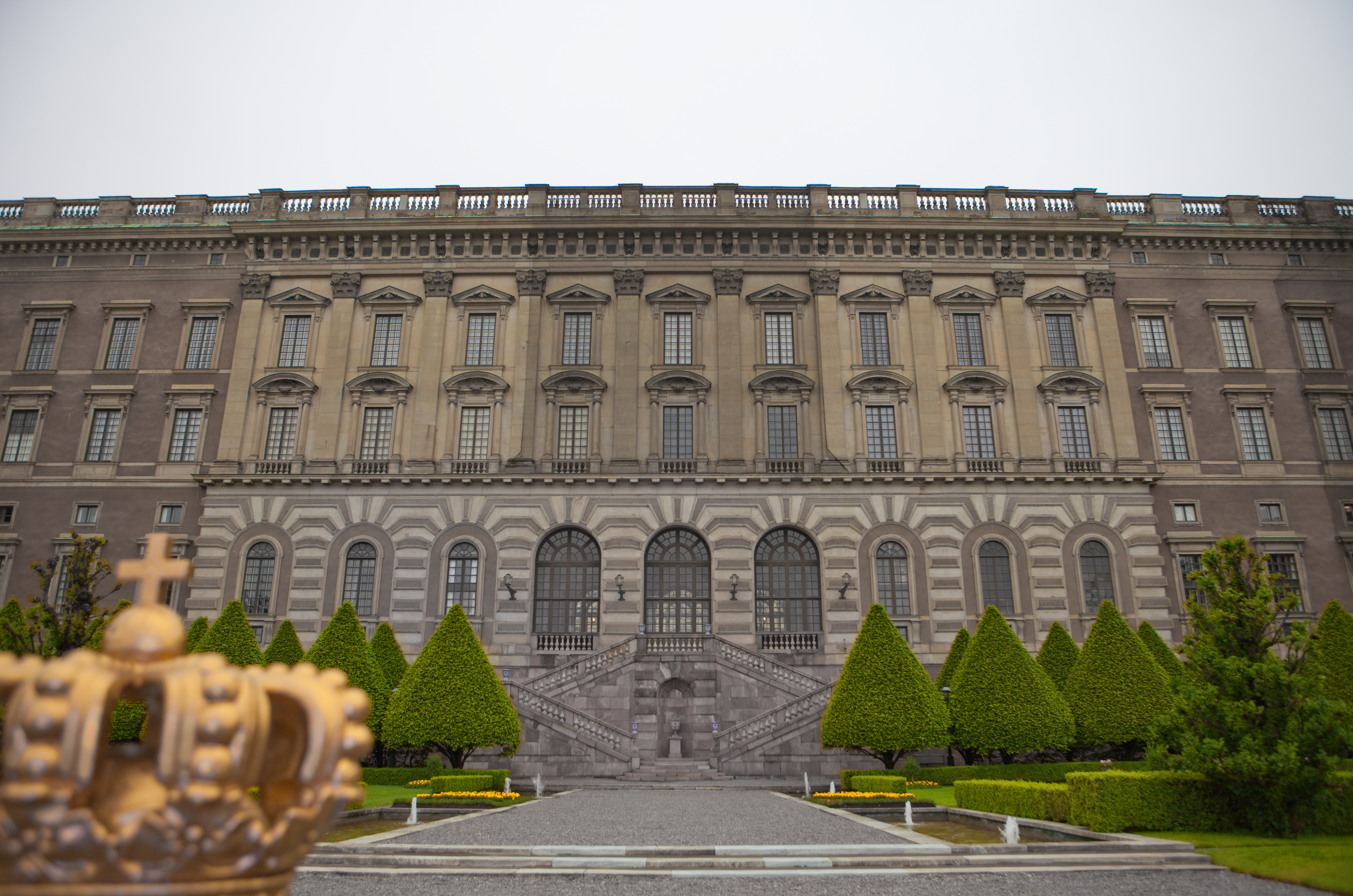 Stockholm Castle east facade